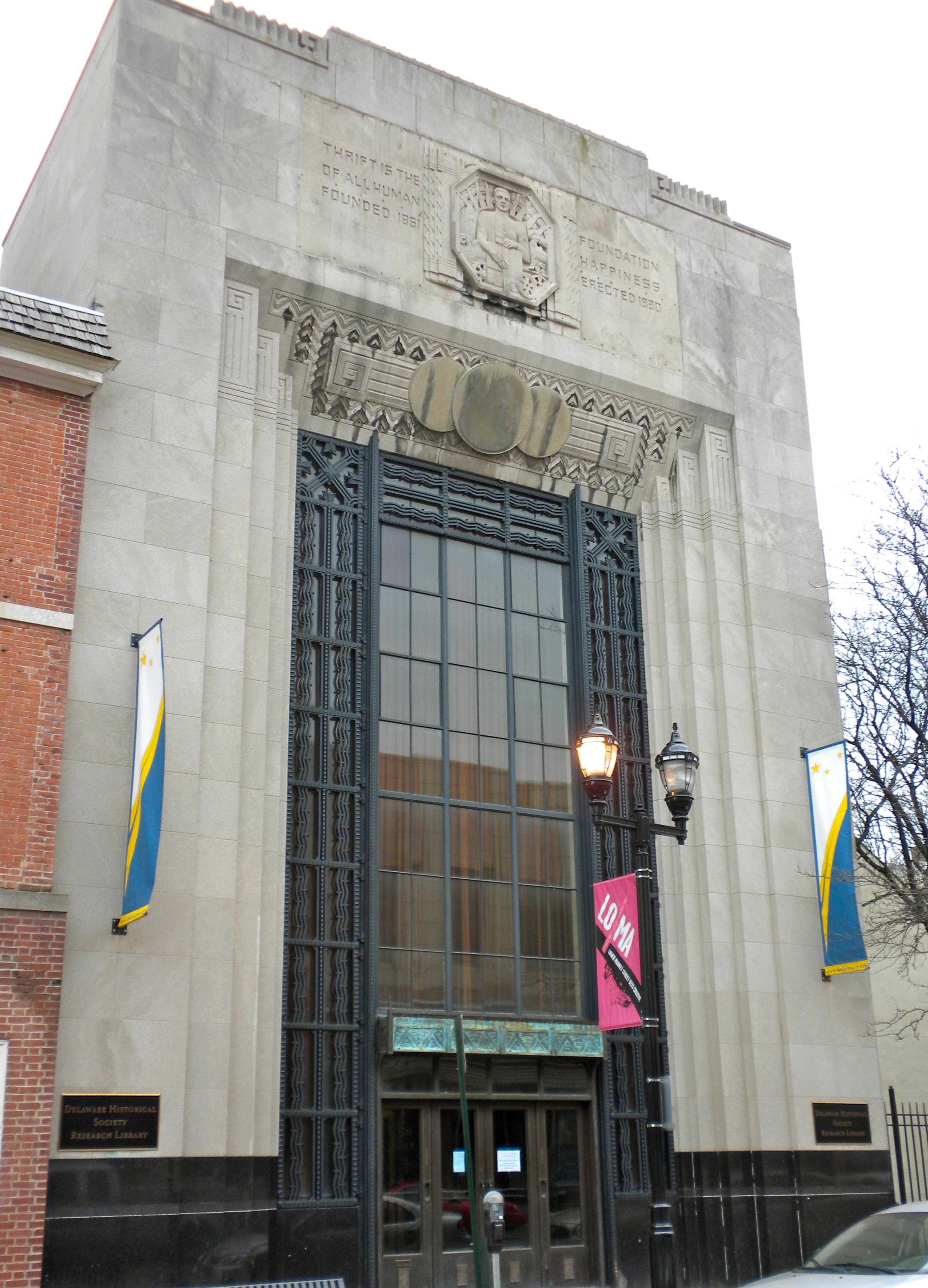 Delaware Historical Society Library and Research Center on North Market Street in Wilmington Delaware. Part of a complex of the Society on North Market Street